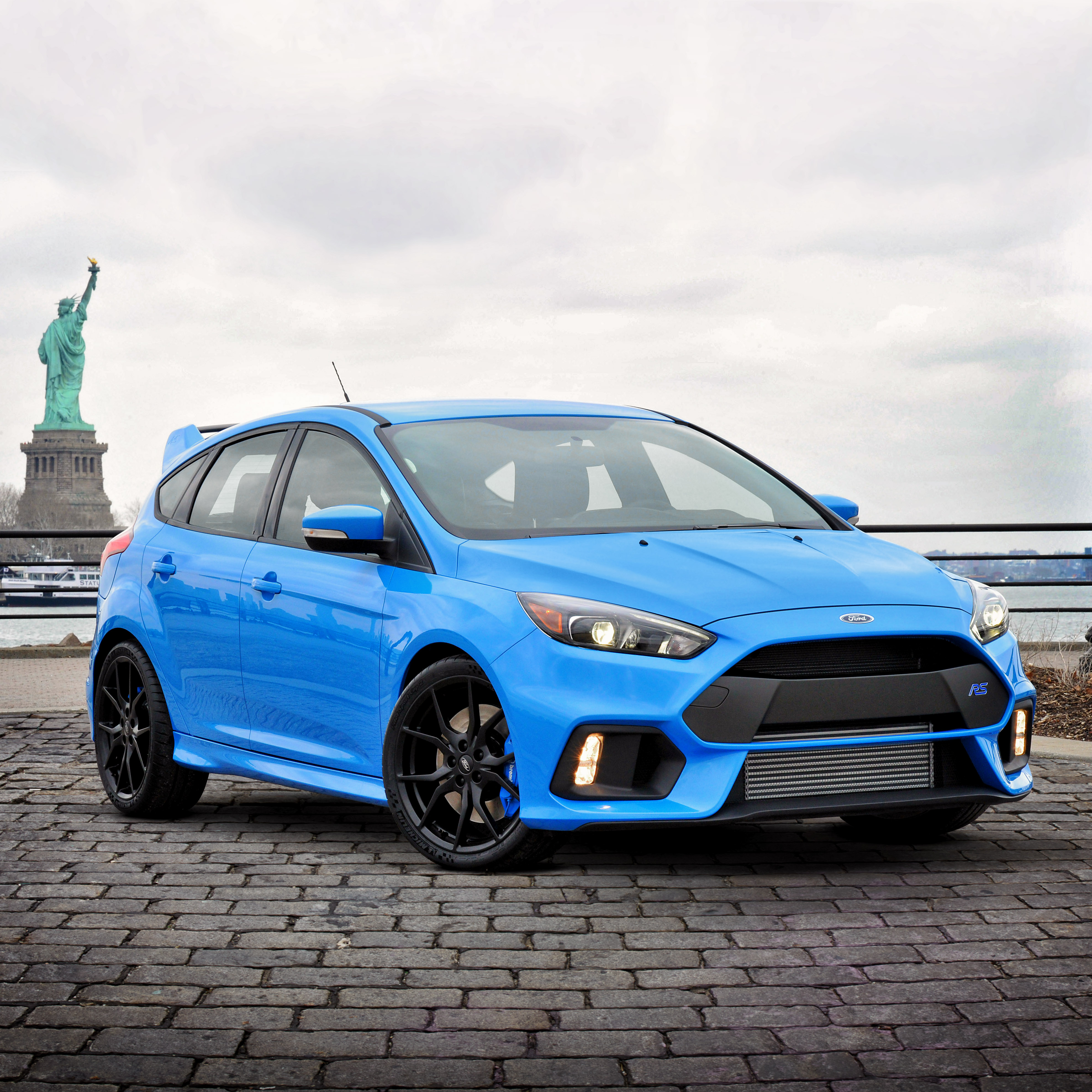 The all-new 2016 Ford Focus RS Mk III stops by iconic New York City landmarks as it arrives on U.S. soil for the 2015 New York International Auto Show.